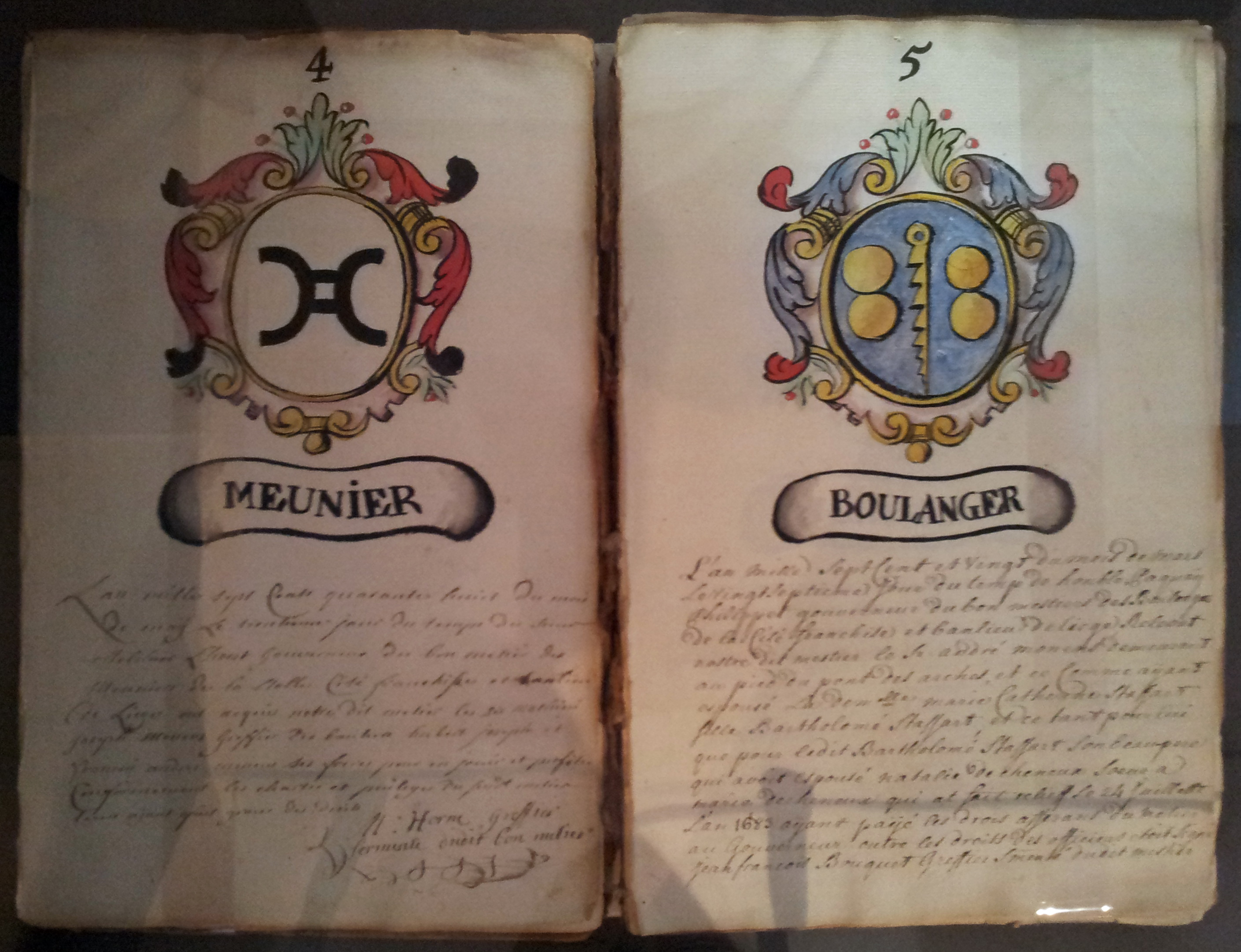 Book of the 32 guilds (Liège, 1734) in the collection of Museum Grand Curtius, Liège, Belgium.